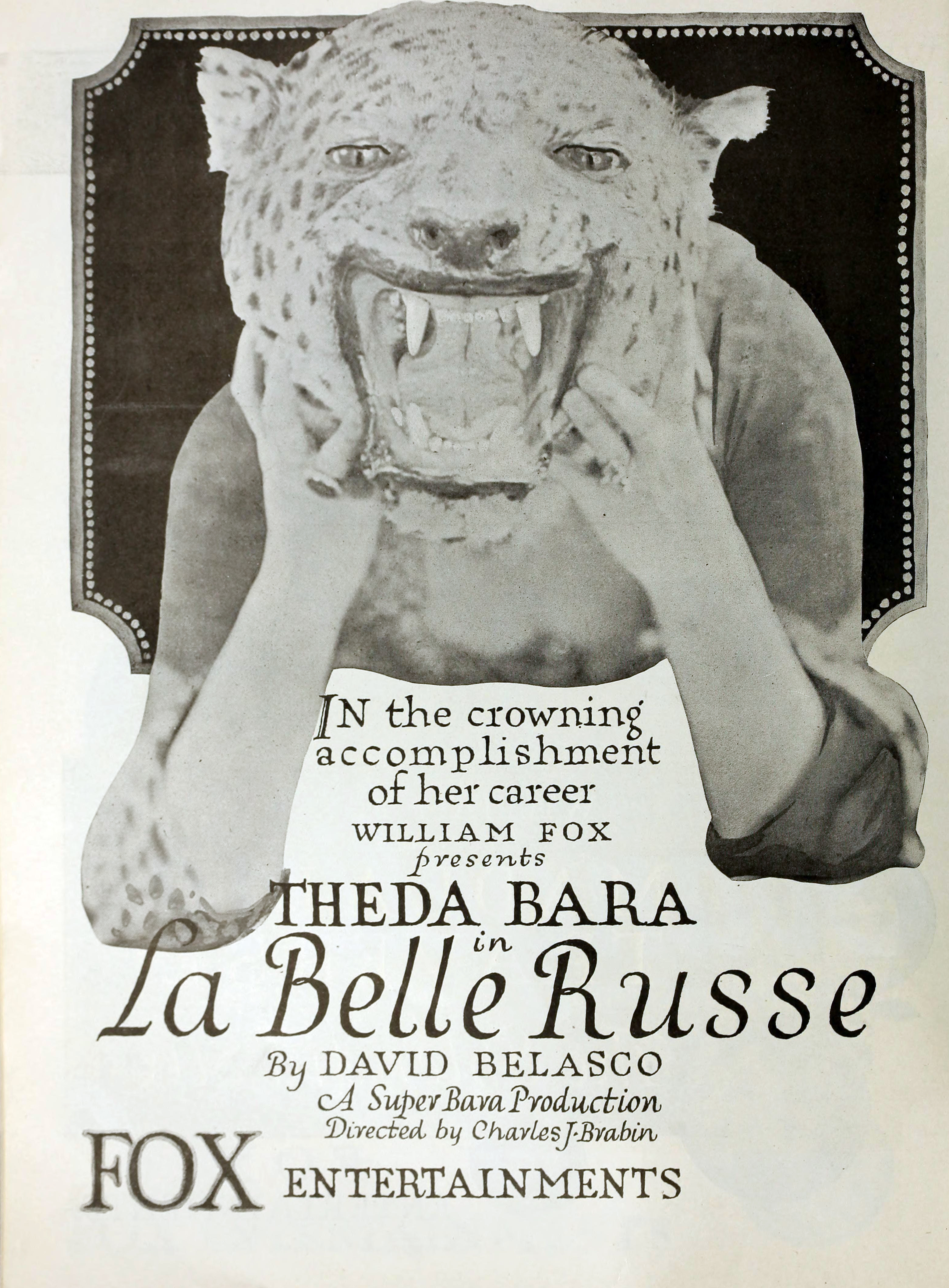 Ad for the American film La Belle Russe (1919) with Theda Bara, page 1758 of the August 30, 1919 Motion Picture News.